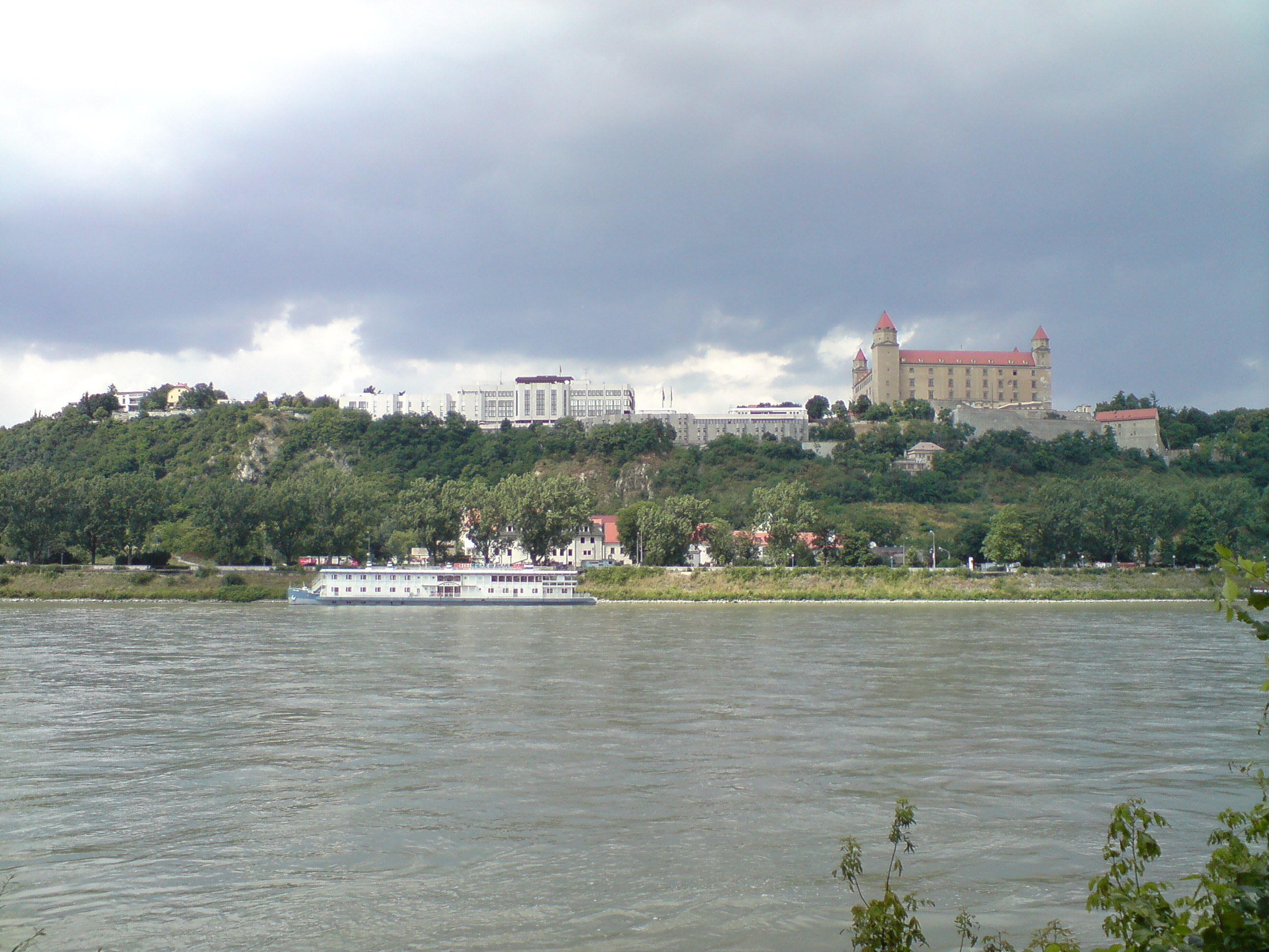 Vydrica a Zuckermandel